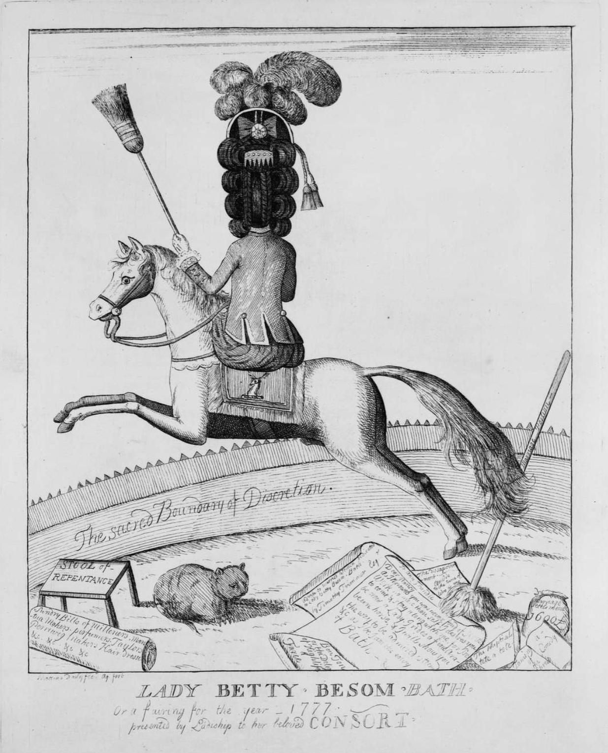 better version from the Library of Congress - Darly, Matthew, active 1741-1780, artist from British Cartoon Prints Collection (Library of Congress).